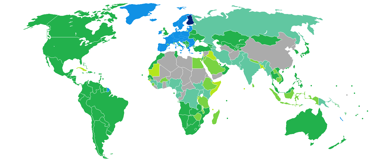 Visa requirements for Finnish citizens Finland Freedom of movement Visa not required Visa on arrival eVisa Visa available both on arrival or online Visa required prior to arrival